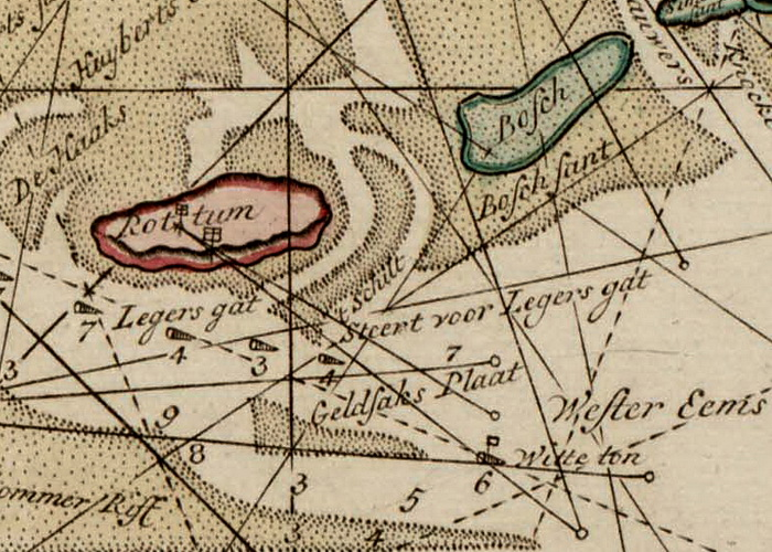 map of Rottumeroog area, West Frisian Islands, Netherlands (north is on the bottom of the image)